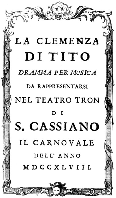 Antonio Gaetano Pampani - La clemenza di Tito - titlepage of the libretto - Venice 1748